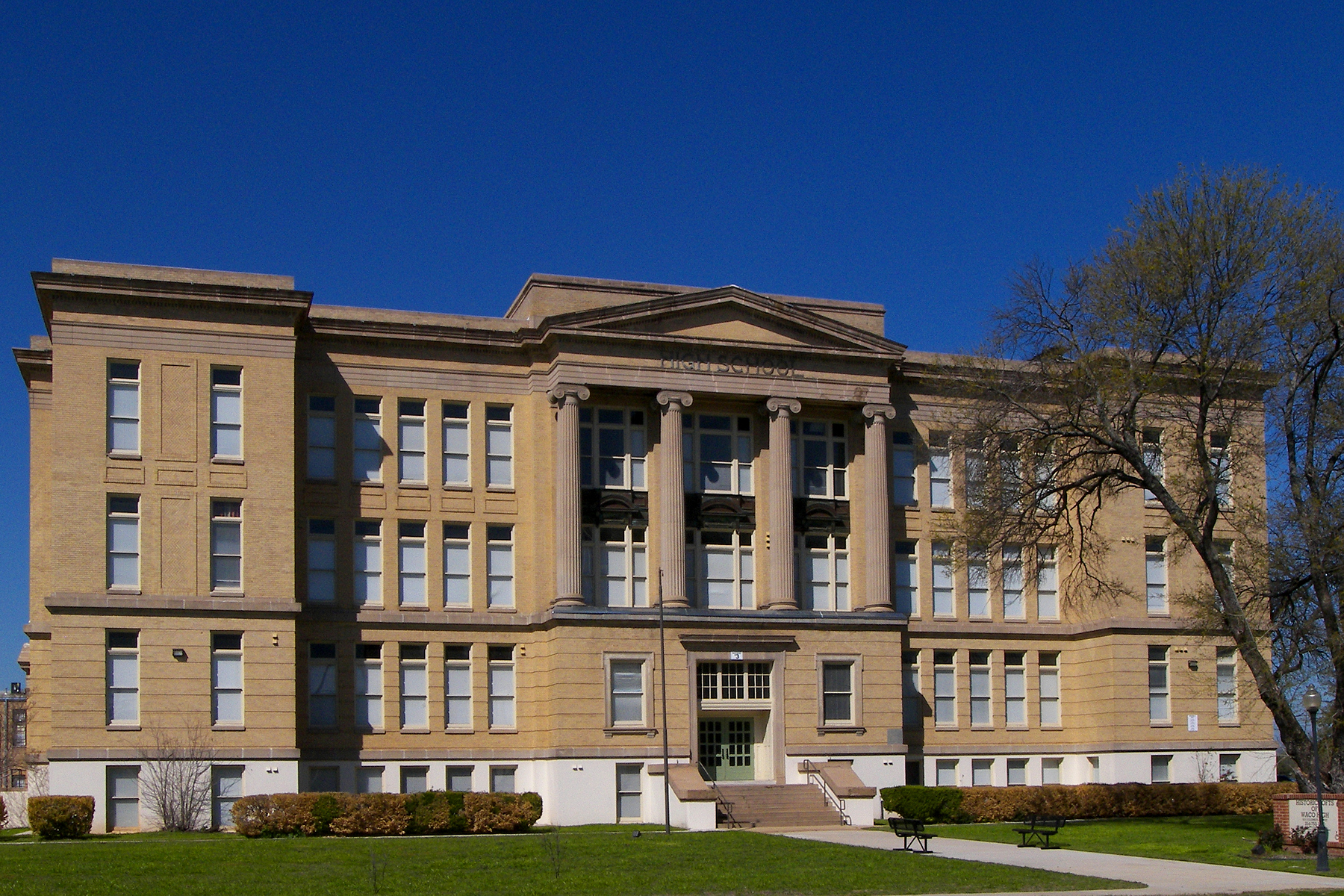 Waco High School located in Waco, Texas, United States. The building was added to the National Register of Historic Places on March 17, 2009.